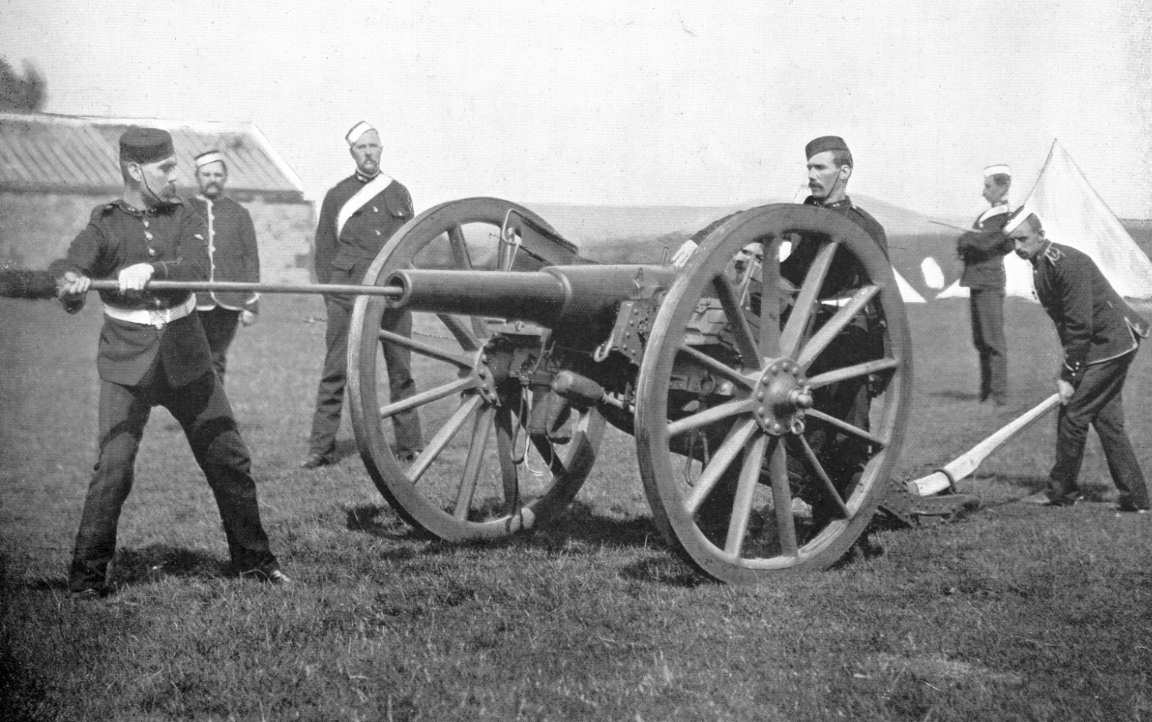 Photograph of 1st. Shropshire and Staffordshire Volunteer Artillery, ramming the shell in a RML 16 pounder 12 cwt heavy field gun.